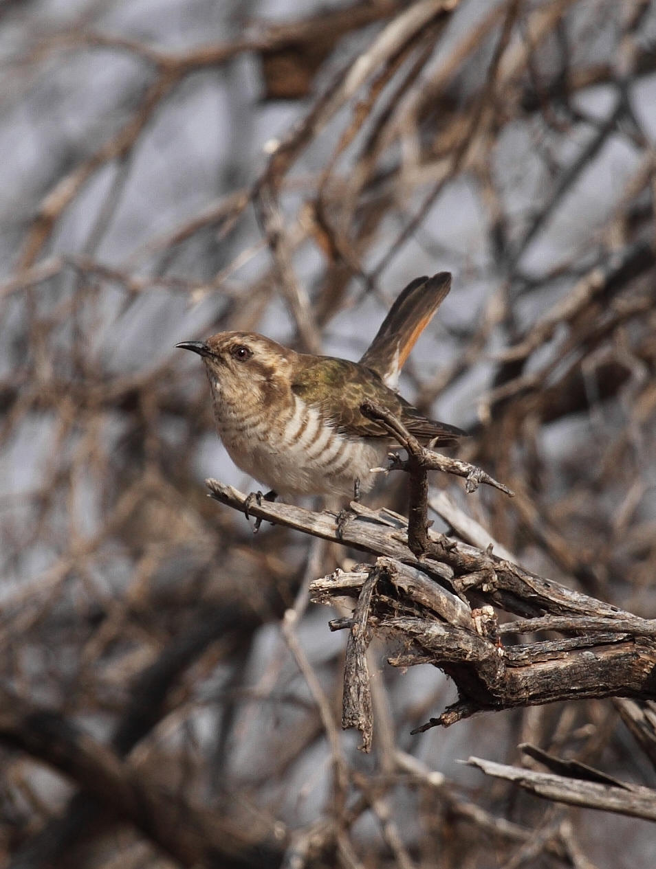 Horsfield's Bronze Cuckoo (Chalcites basalis), Northern Territory, Australia